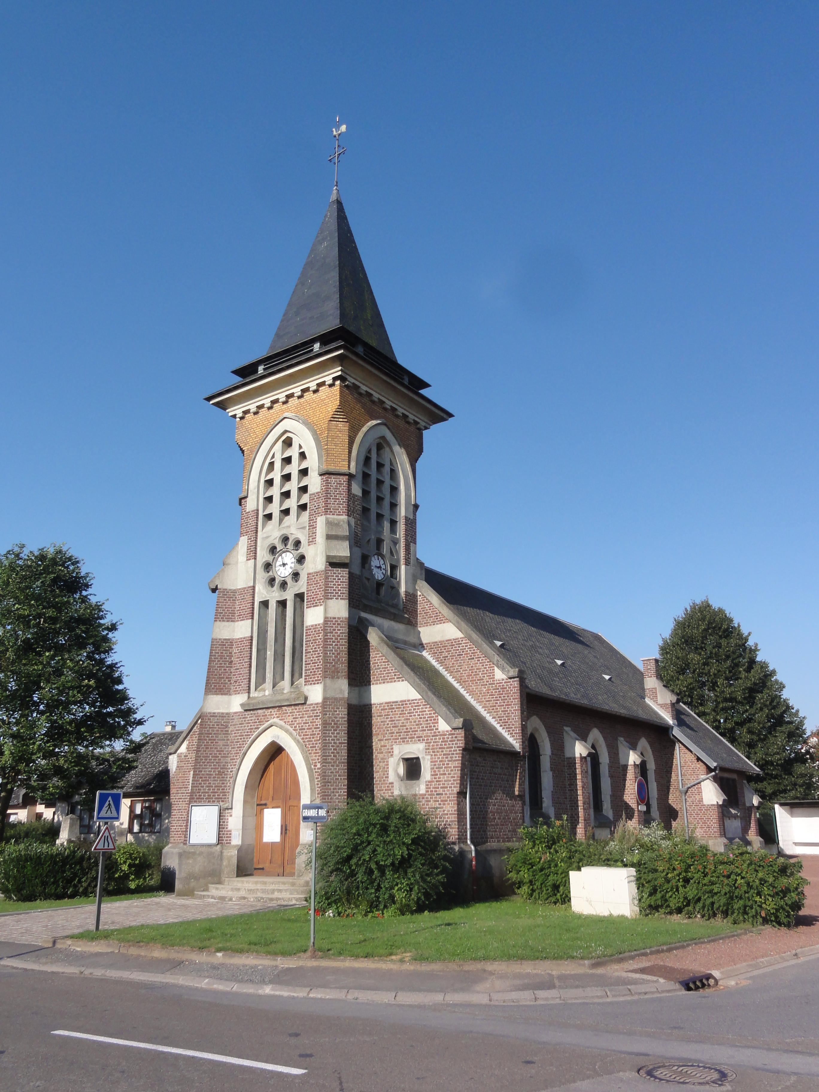 Francilly-Selency (Aisne) église Sainte-Thérèse-de-l'Enfant-Jésus